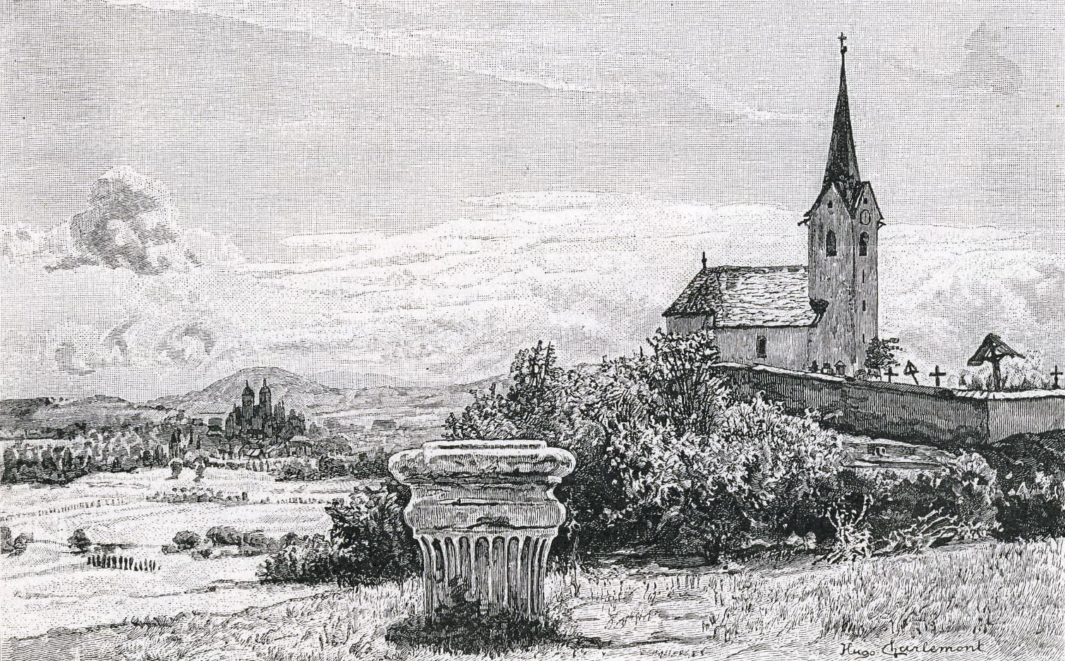 Drawing of Karnburg in the community of Maria Saal, district Klagenfurt-Land, Carinthia, Austria